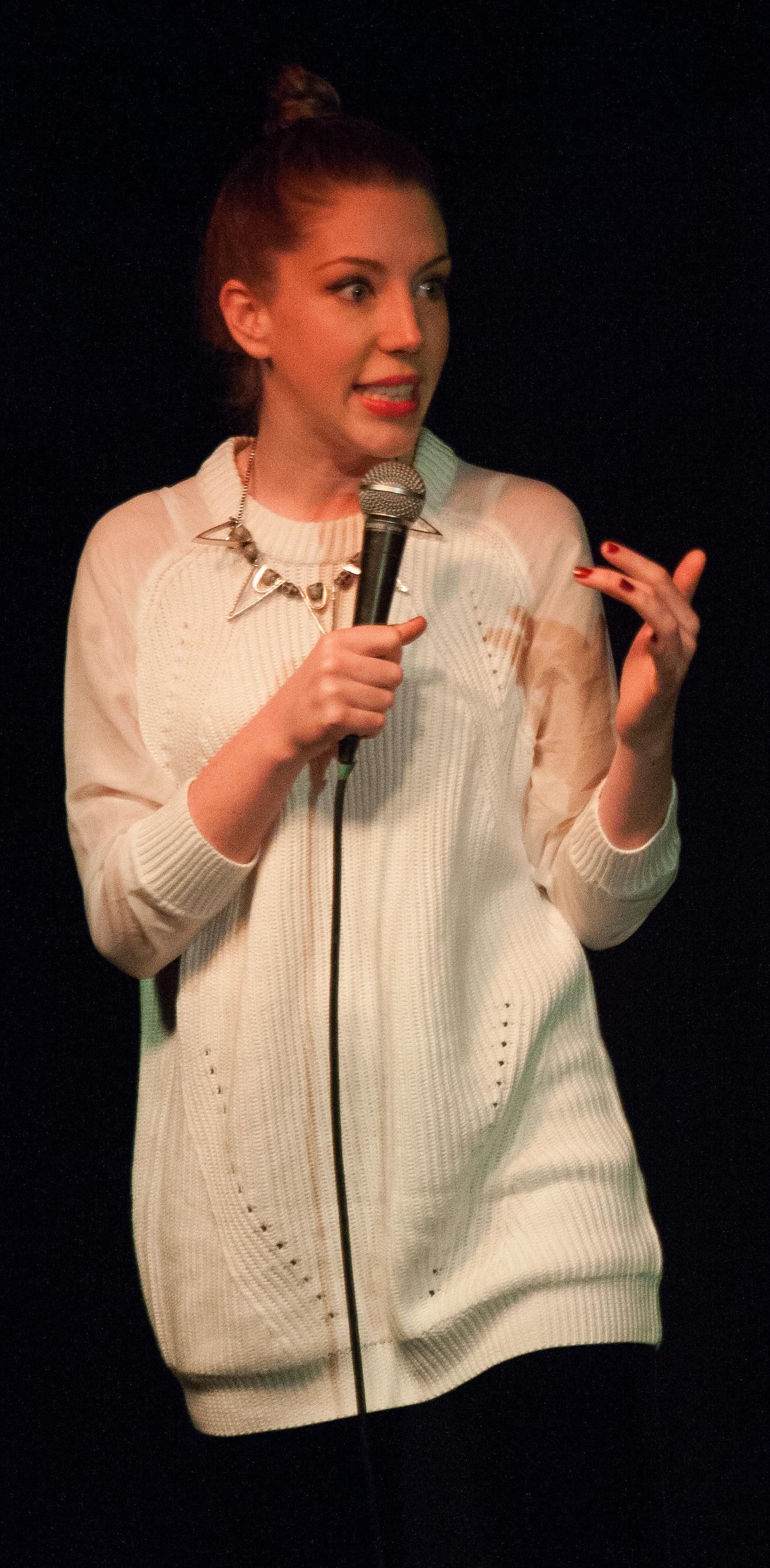 Katherine Ryan